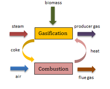 Gasification